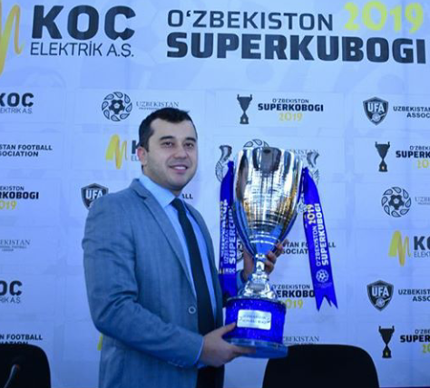 Photo of the famous Uzbekistani football and sports commentator, TV host and journalist Davron Fayziyev in 2019.